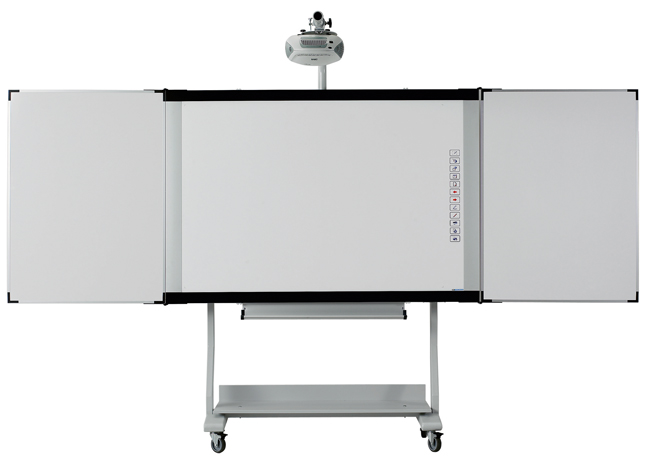 Focus Board